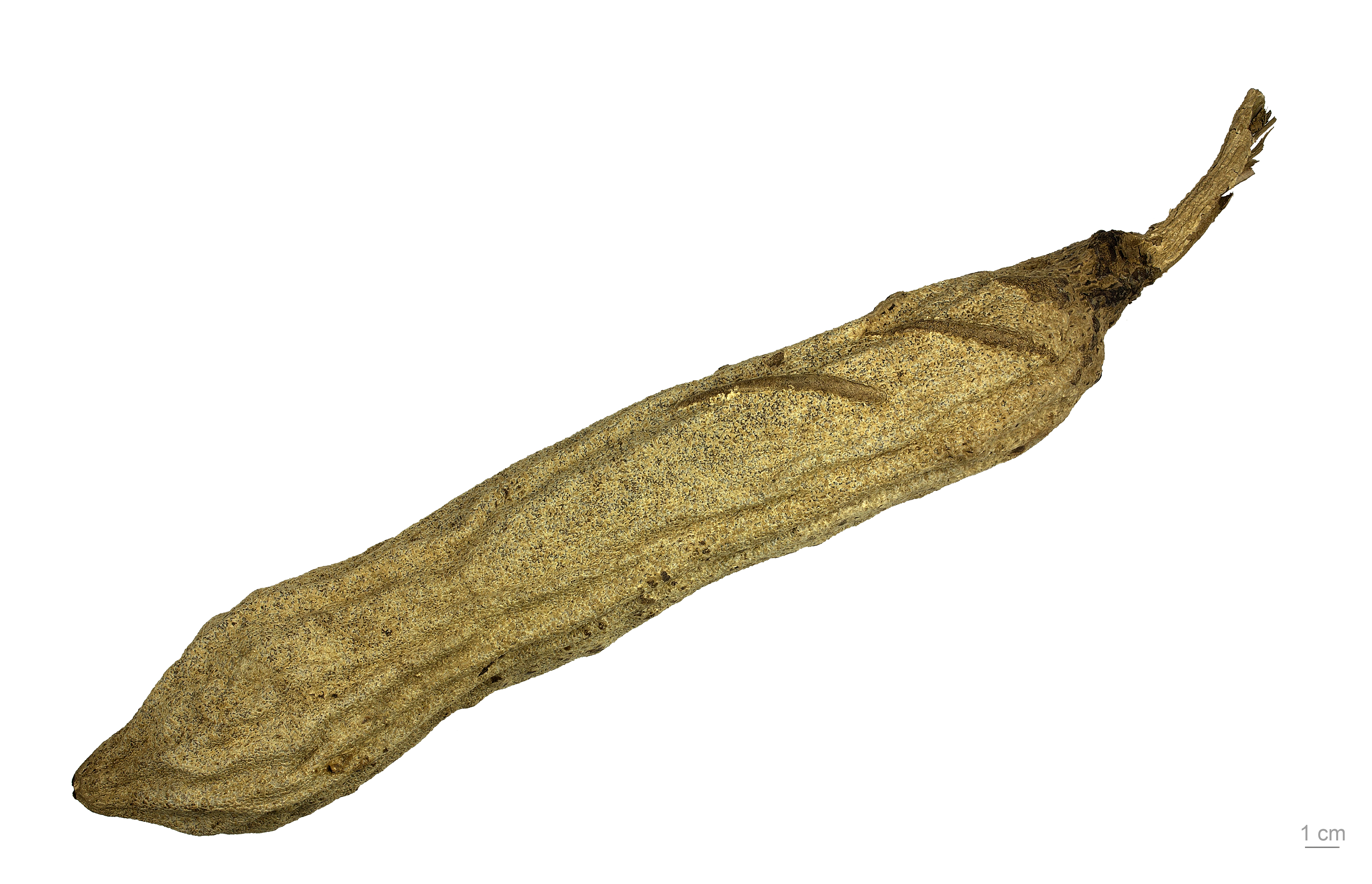 Kigelia africana, sausage tree, fruits